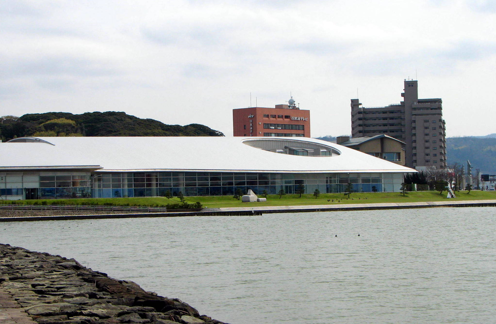 Shimane Art Museum, Matsue, Shimane Prefecture, Japan